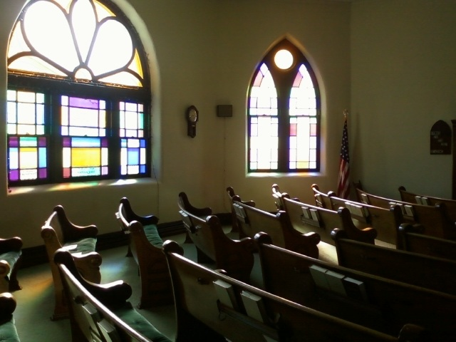 Inside Laurel Hill Presbyterian Church